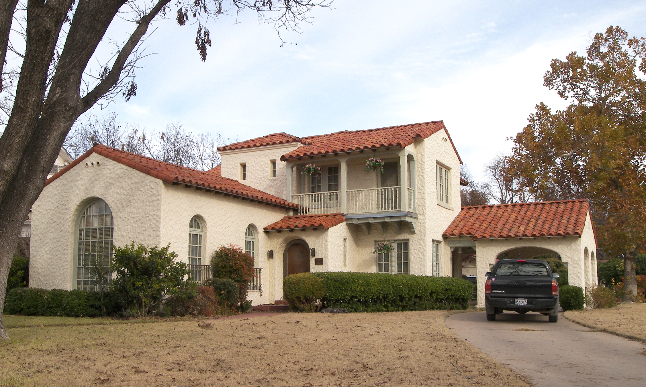 The Ira and Wilma Carson House, located at 1103 Avenue C, Ozona, Texas, United States. It was listed on the National Register of Historic Places on September 26, 2002.